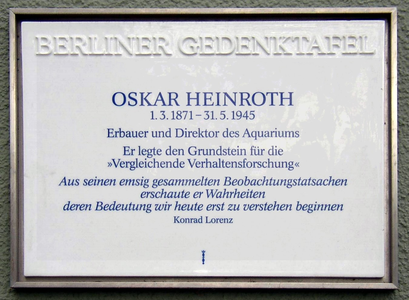 Berlin memorial plaque for Oskar Heinroth in Berlin-Tiergarten, Germany